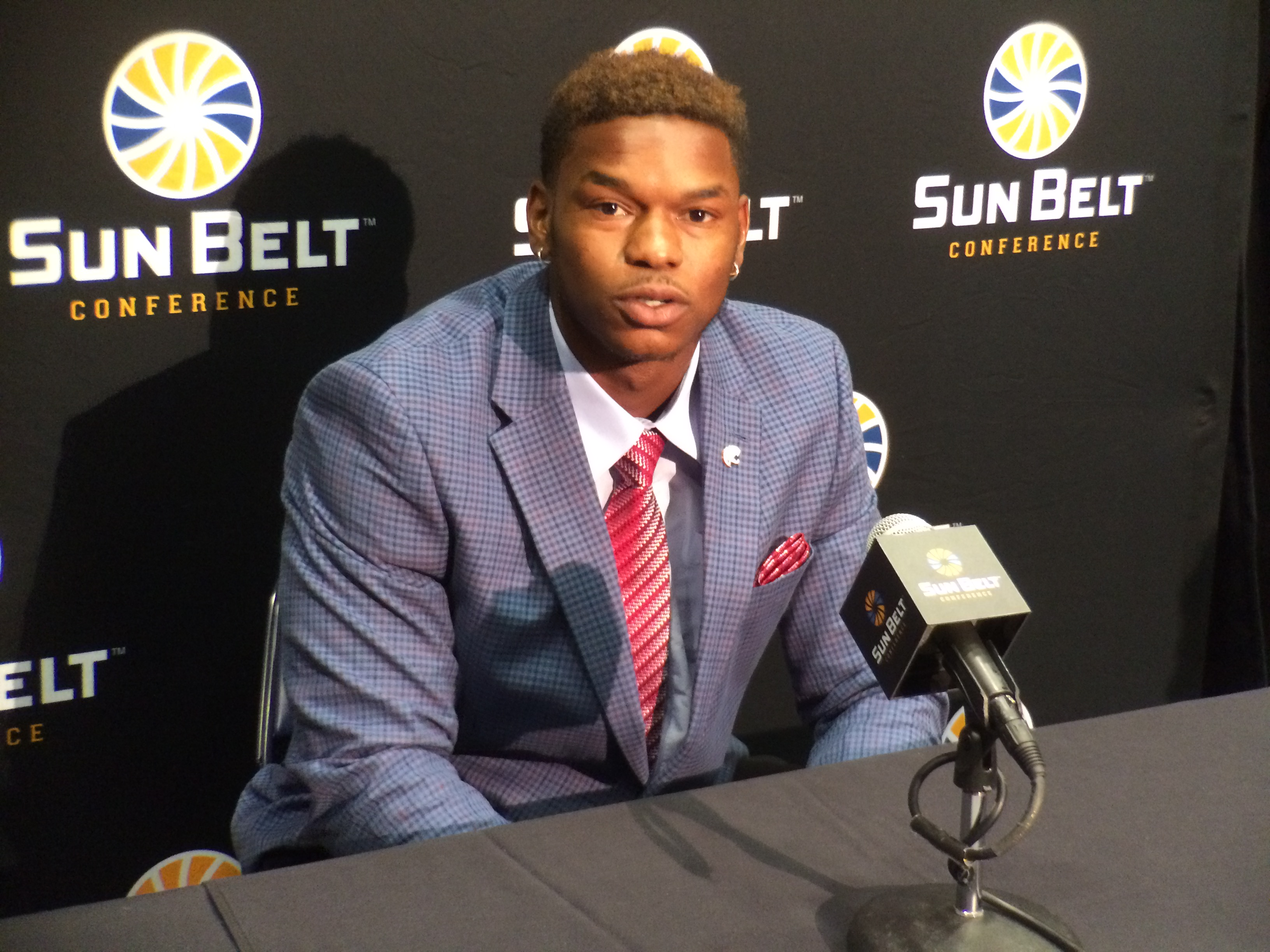 Gerald Everett, tight end on the South Alabama Jaguars football team, at the 2016 Sun Belt Conference Media Day in the Mercedes-Benz Superdome in New Orleans.